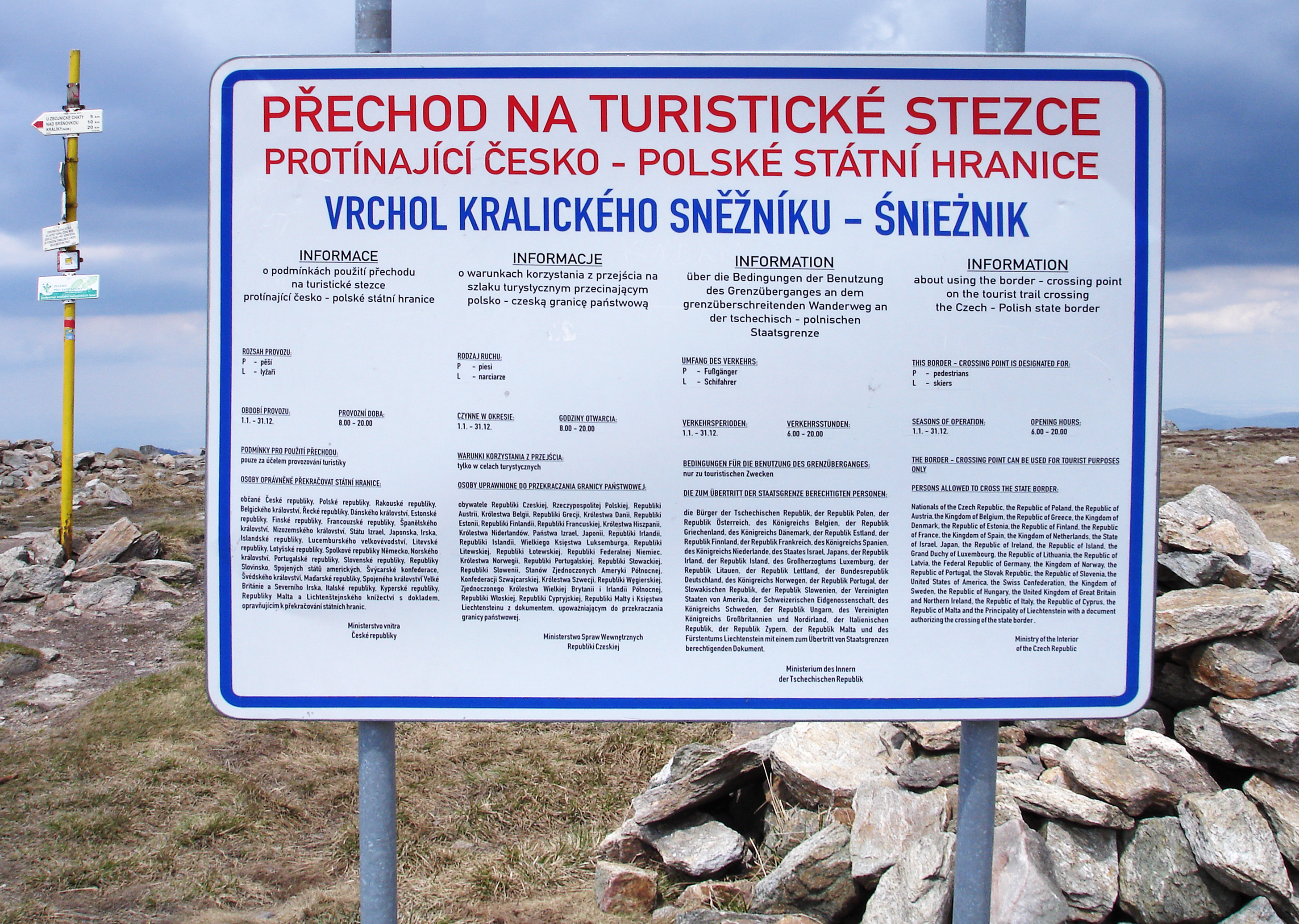 Information panel on Cross-border trail on Glatzer Schneeberg